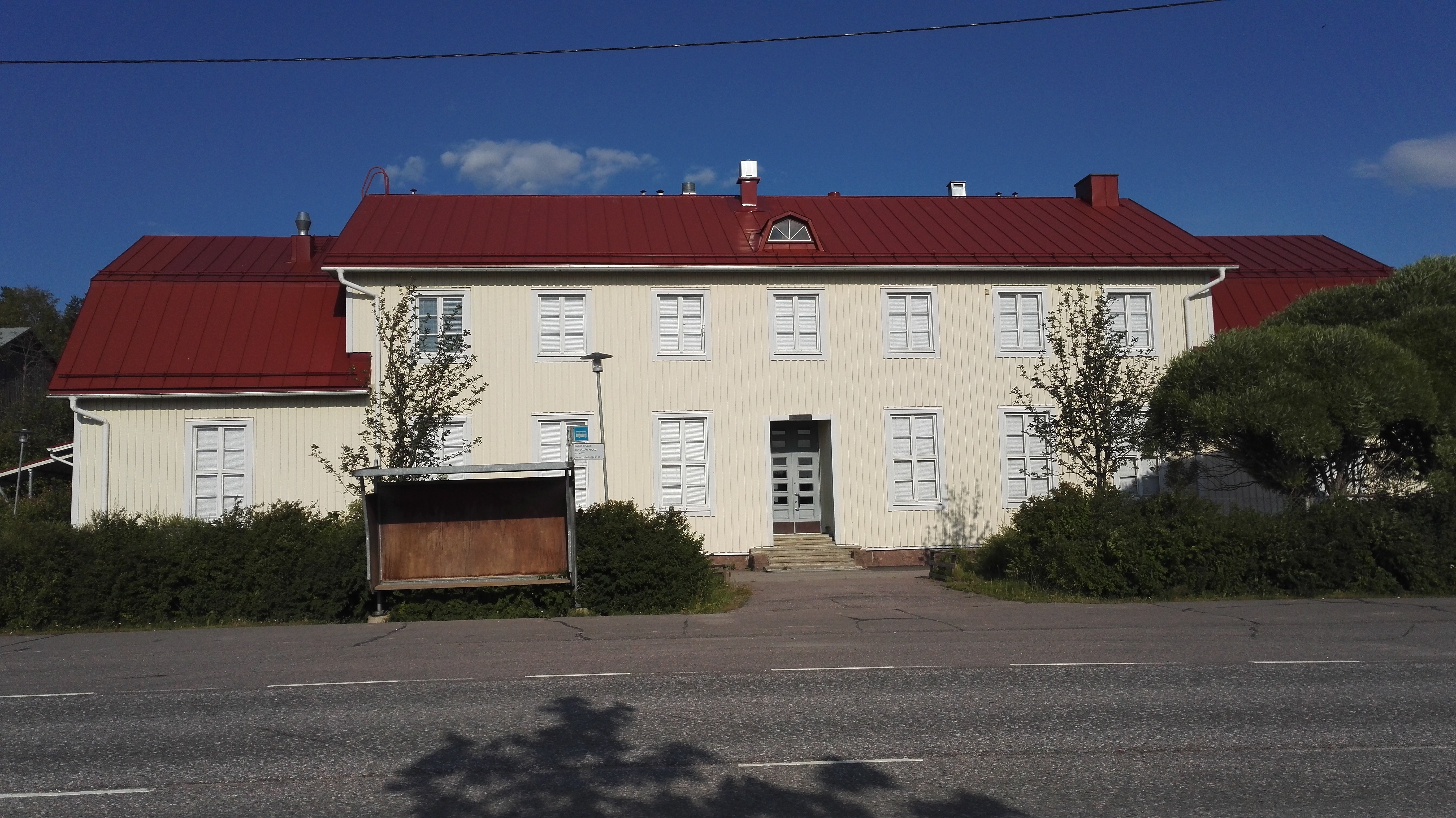 Lepsämän koulu